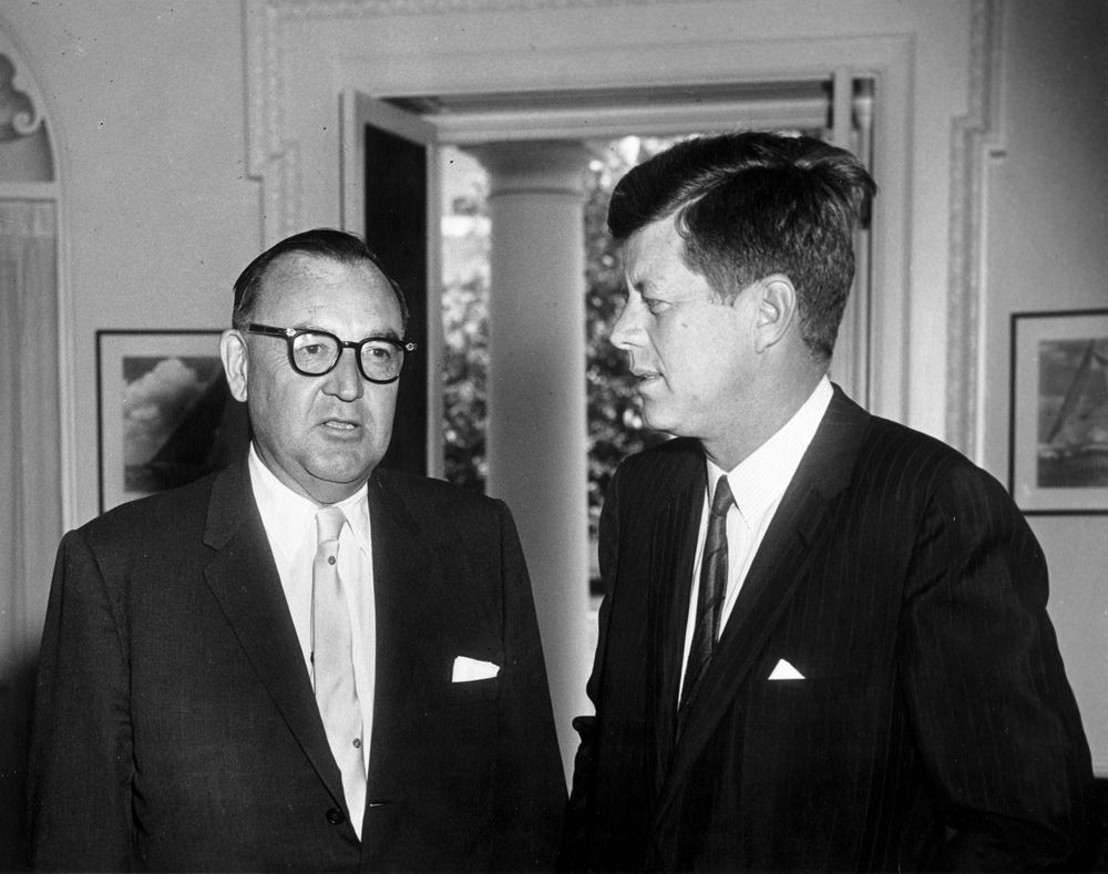 President Kennedy meets with Governor Brown on April 4, 1961